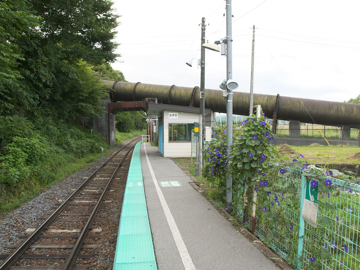 JR East Koumi line Kaize staion.